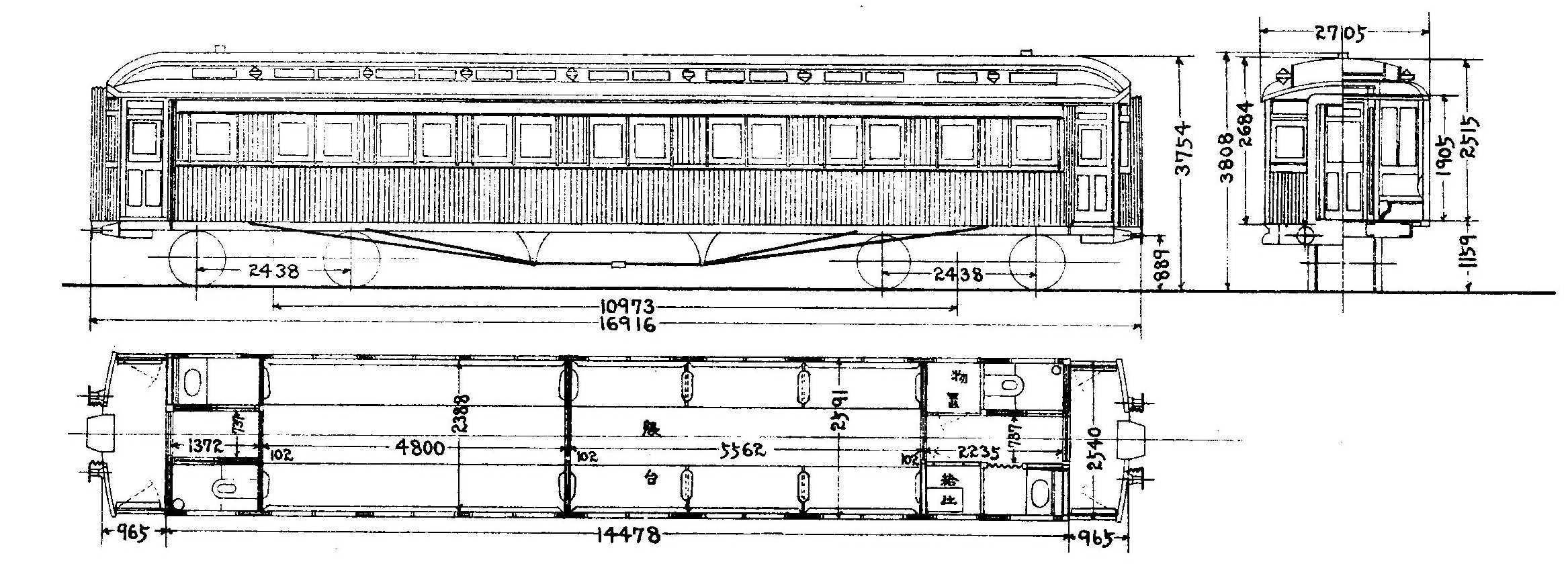 Type drawing of JGR's Inei5040 type passenger car